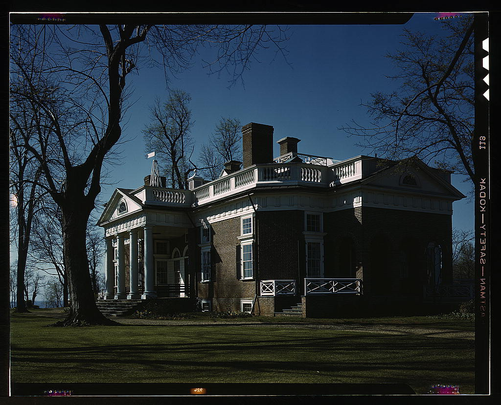 Collier, John,, 1913-, photographer. Monticello, home of Thomas Jefferson, Charlottesville, Va. 1943 April 1 transparency : color. Notes: Title from FSA or OWI agency caption. Transfer from U.S. Office of War Information, 1944. Subjects: Jefferson, Thomas,--1743-1826 Monticello (Va.) Estates World War, 1939-1945 United States--Virginia Format: Transparencies--Color Repository: Library of Congress, Prints and Photographs Division, Washington, D.C. 20540 USA, Part Of: Farm Security Administration - Office of War Information Collection 12002-43 (DLC) 93845501 General information about the FSA/OWI Color Photographs is available at Persistent URL: Call Number: LC-USW36-757